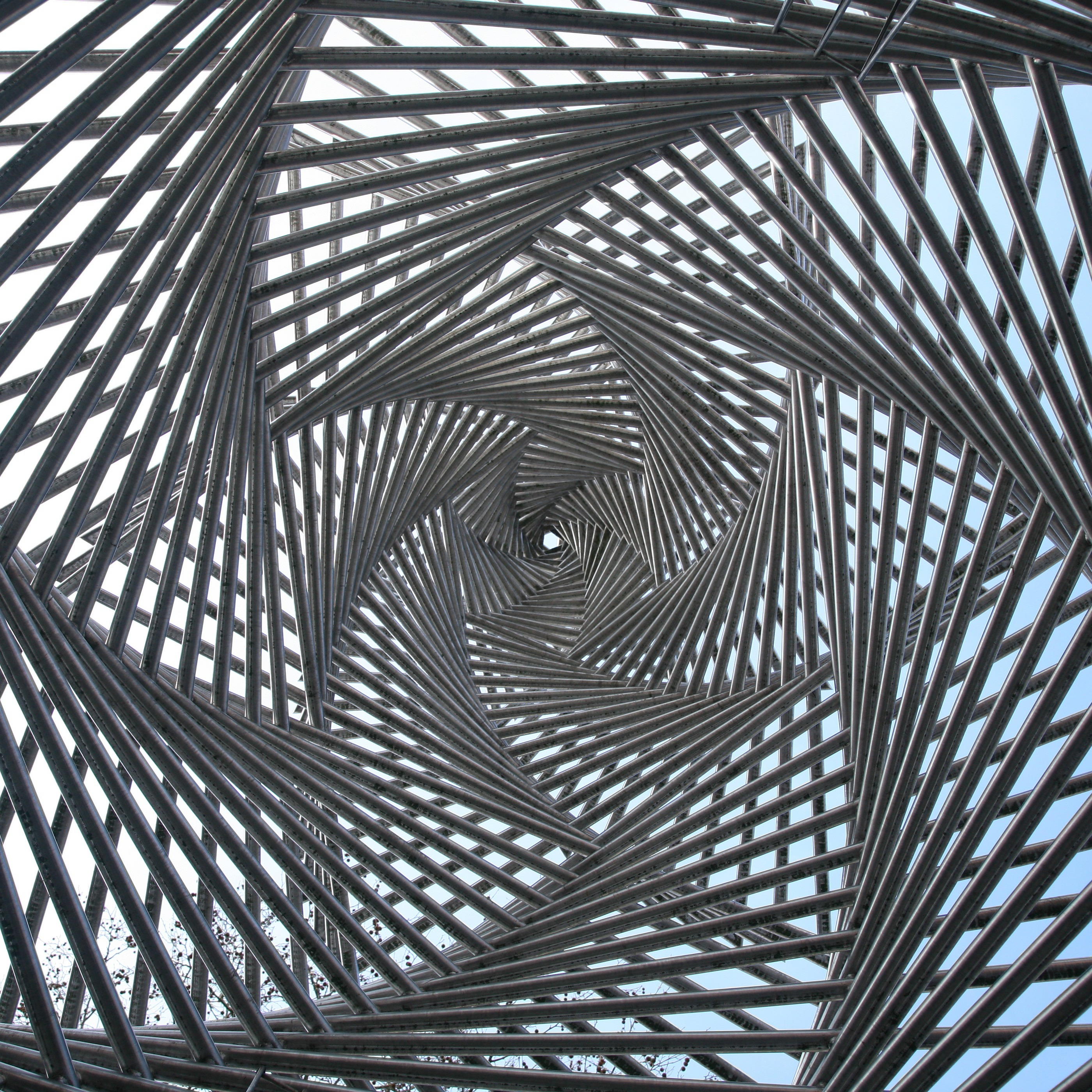 Sculpture at Platz der Synagoge as seen from the inside looking straight up. Göttingen, Germany.